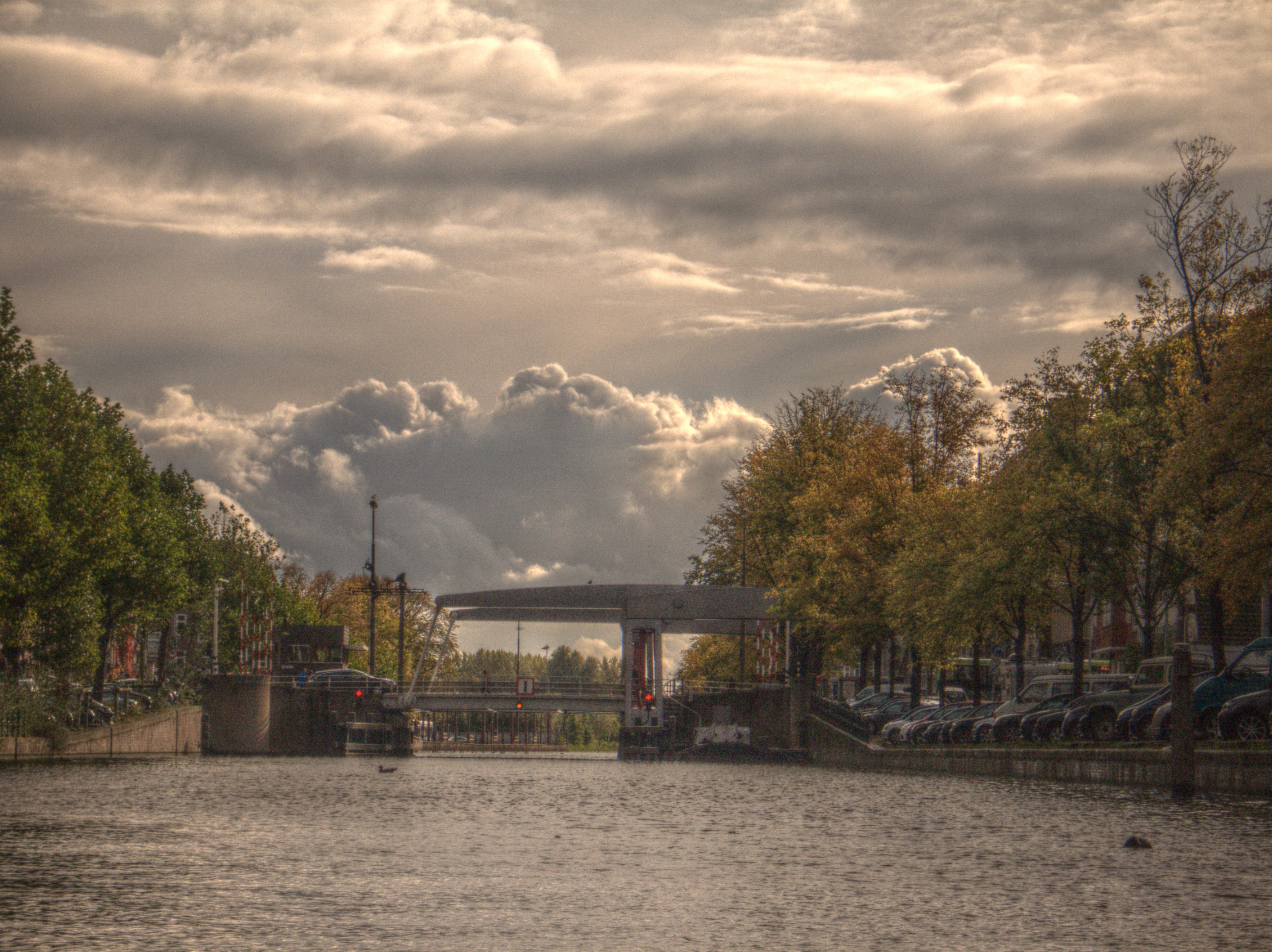 The Zeilbrug bridge over the Schinkel in Amsterdam, october 2012. Seen to the south